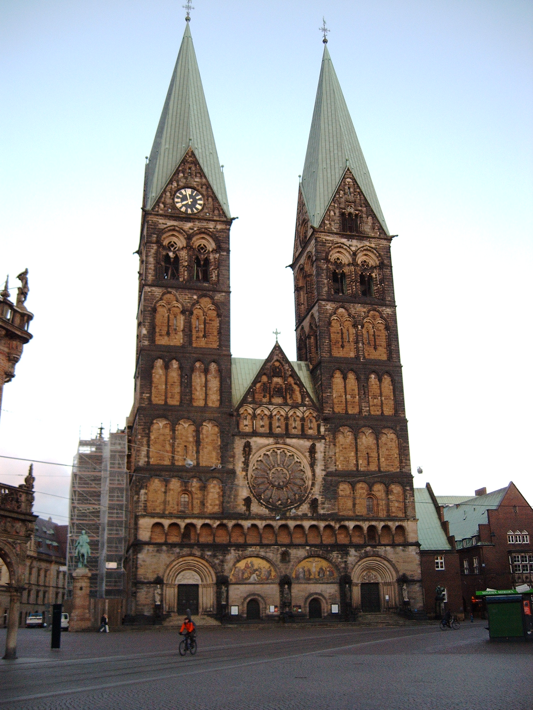 ST. Petri Dom Images DownTown - Bremen City in Germany.